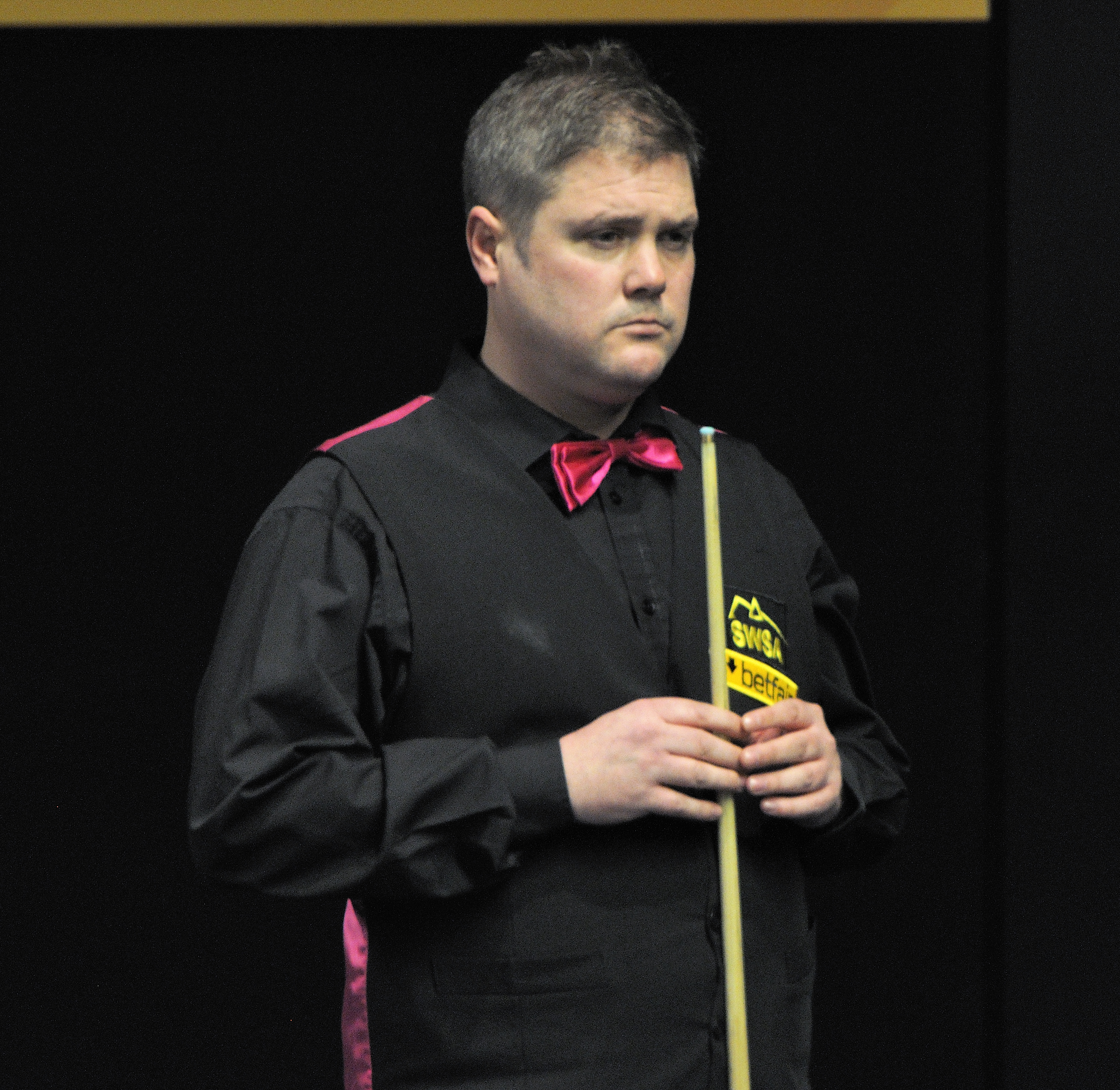 Picture taken in Berlin during the Snooker German Masters in 2013. Robert Milkins.